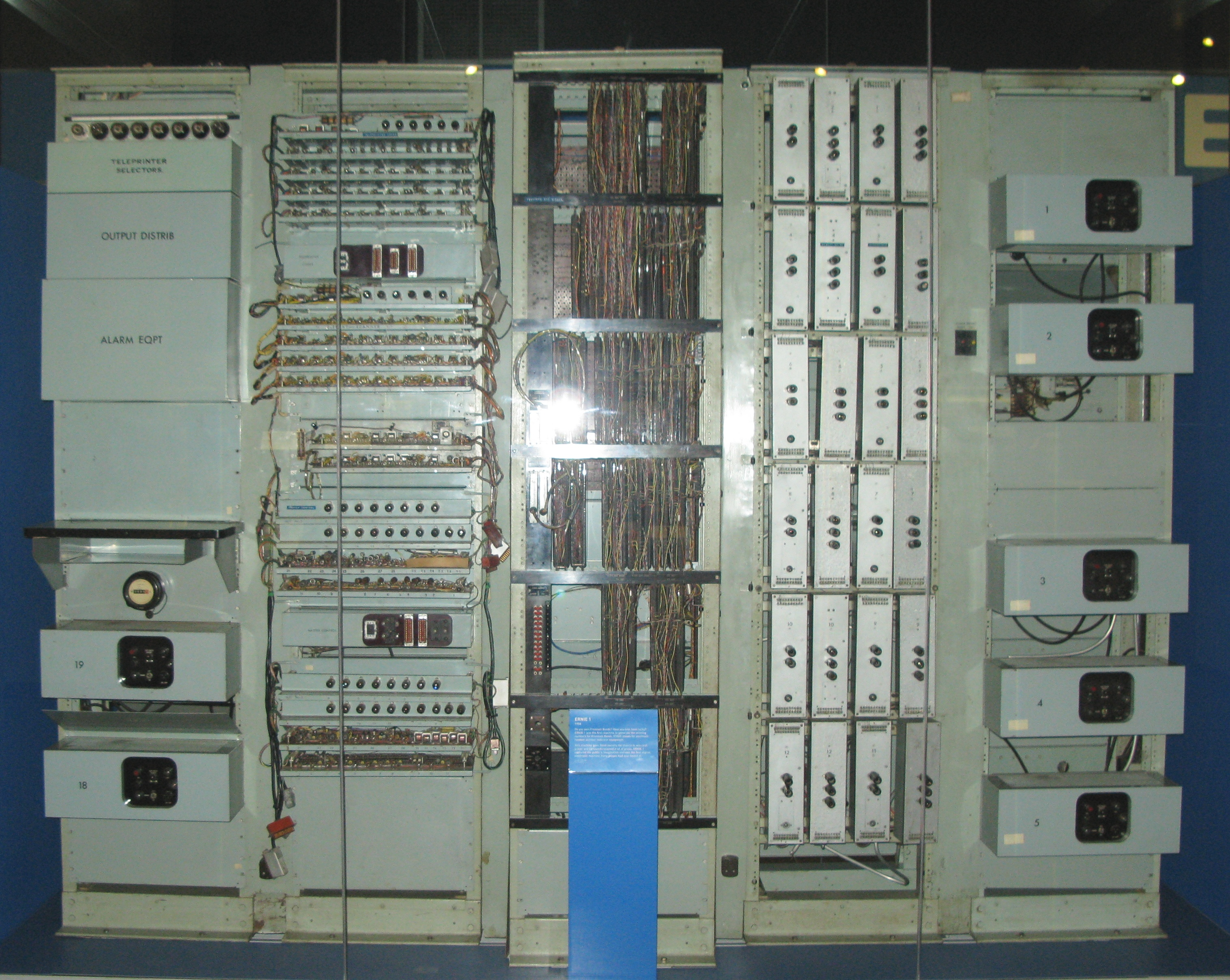 A photo of Premium Bond 1 the machine originaly used to generate the UK's Premium Bond numbers